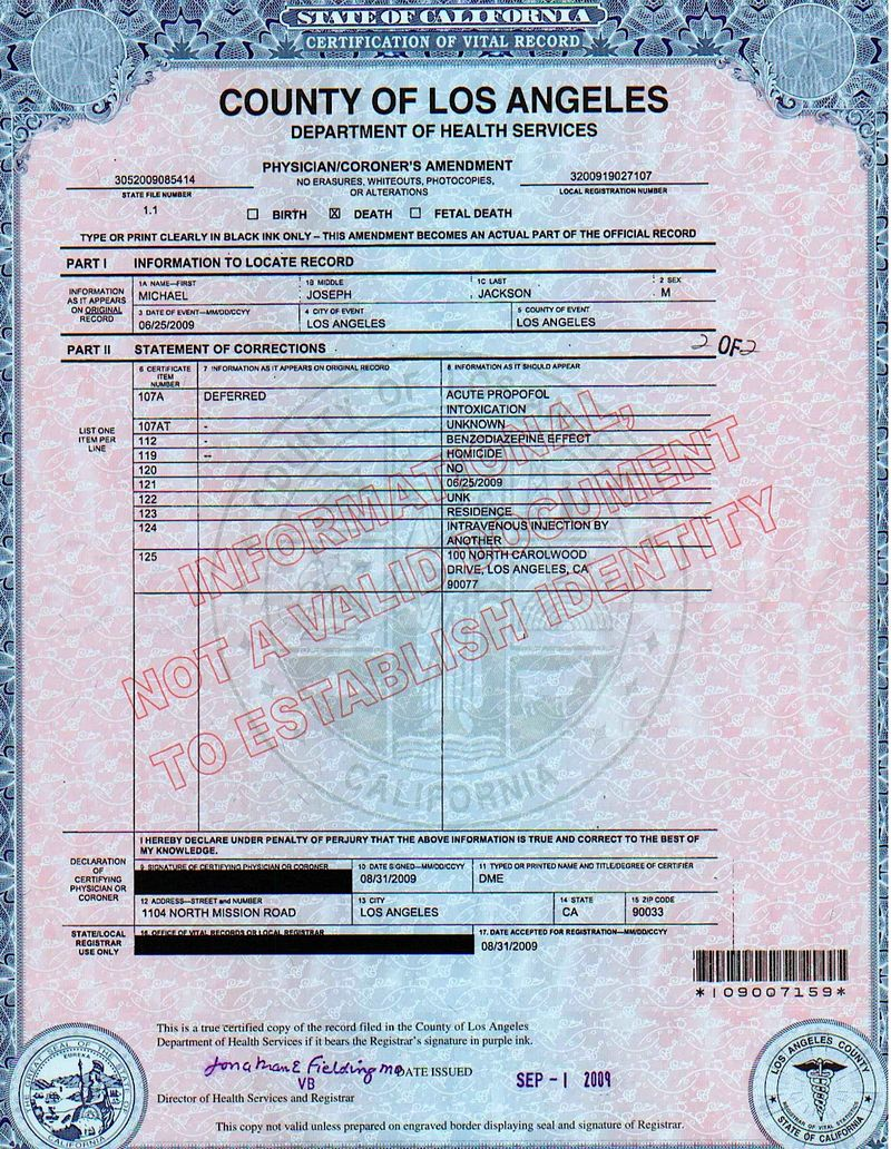 Michael Jackson Death Certificate Amendment. Because an actual amended certificate copy is not available. [1]